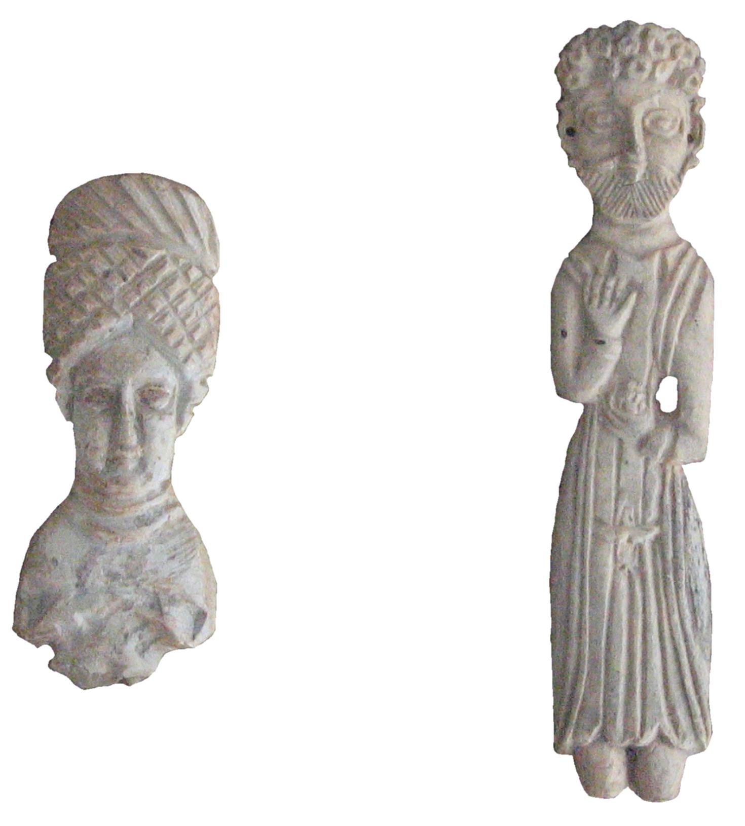 Figurines en os, Sassanide. National Museum of Iran.